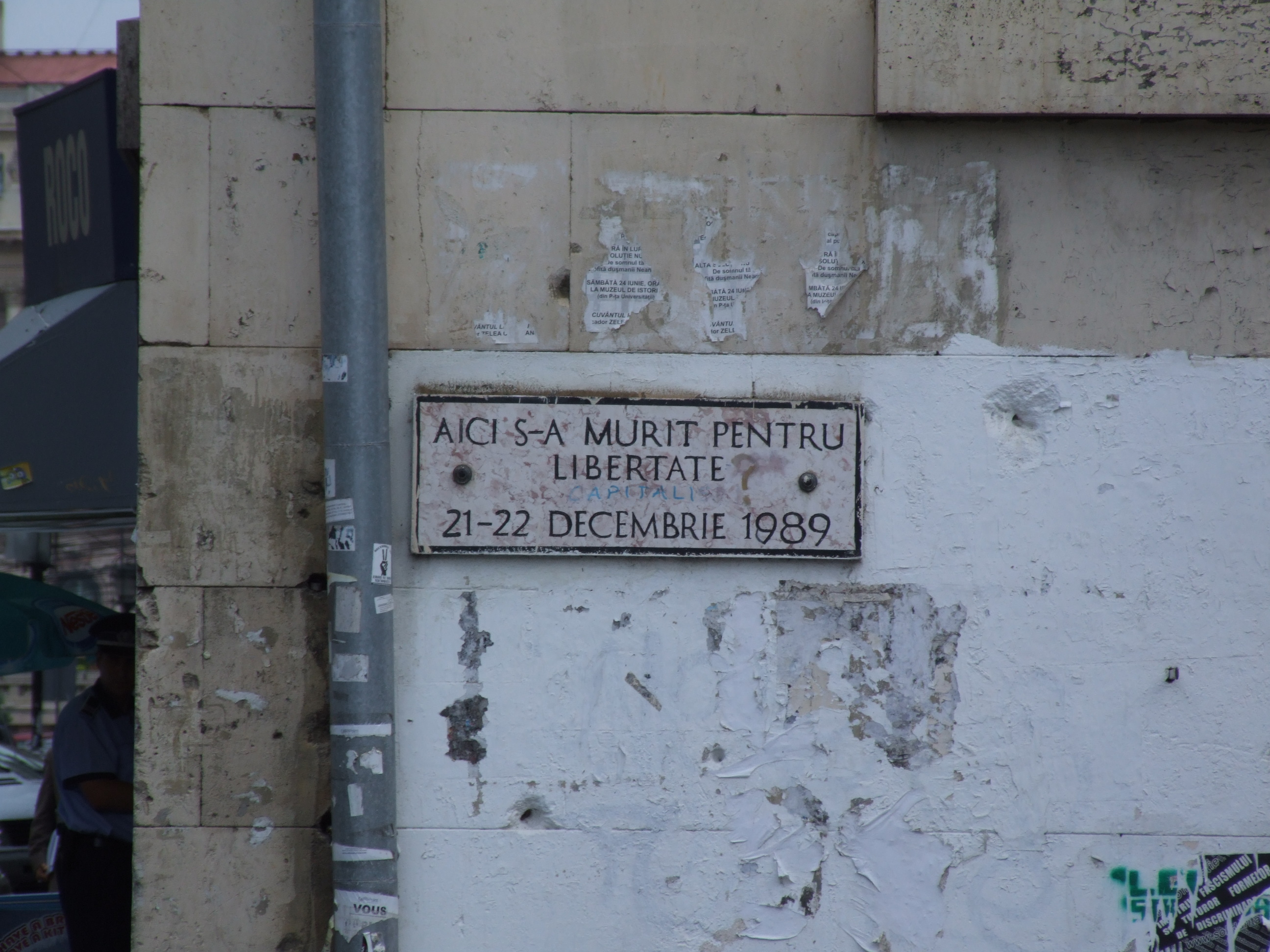 Plaque commemorating those who were killed during the Romanian Revolution in December 1989